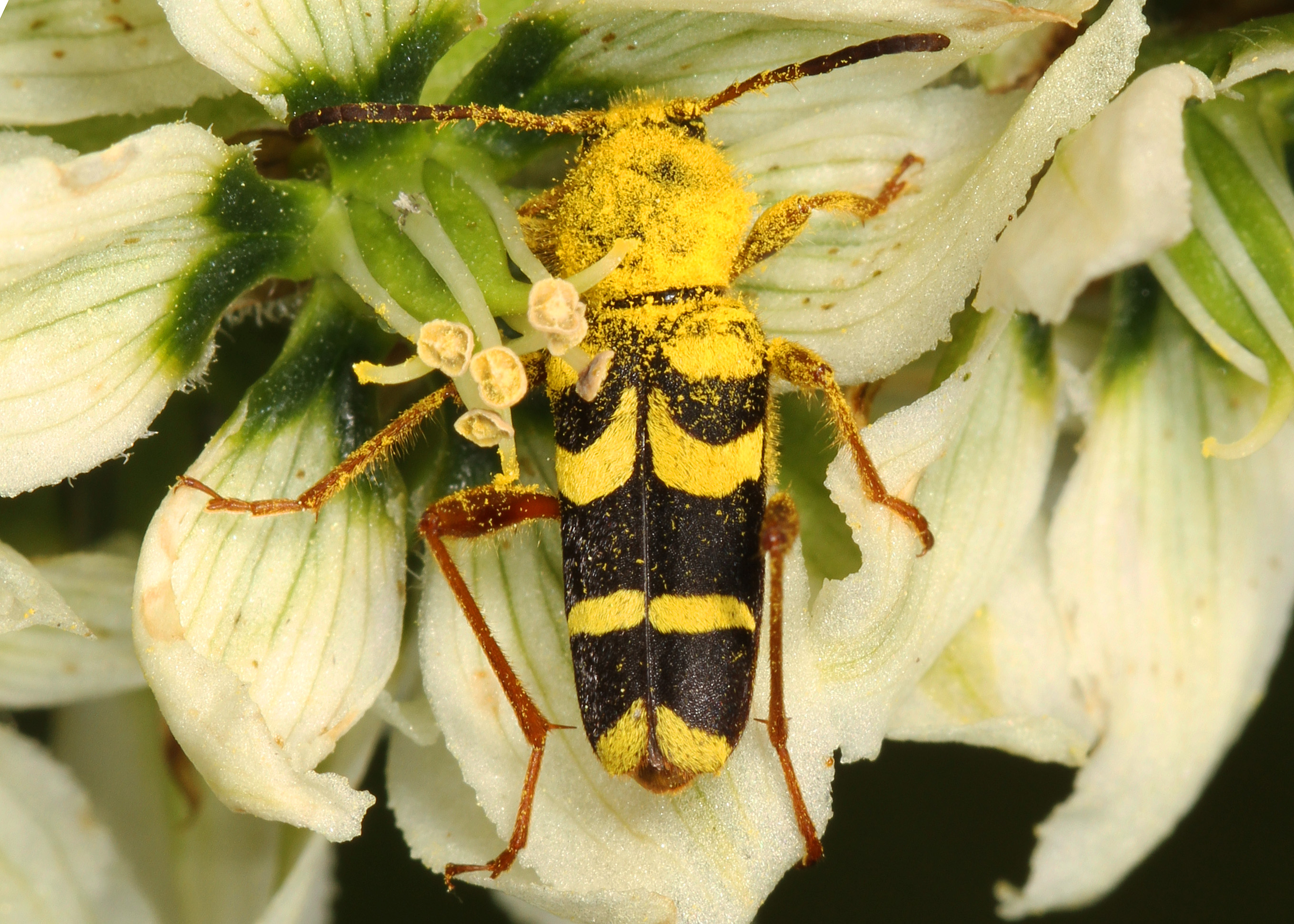 Borer Beetle - Clytus planifrons, Lassen Volcanic National Park, Mineral, California.